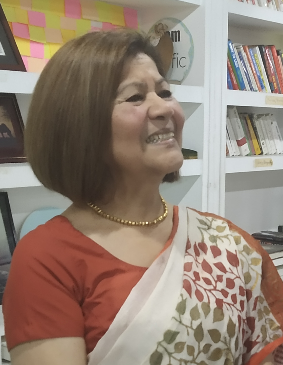 Entrepreneur